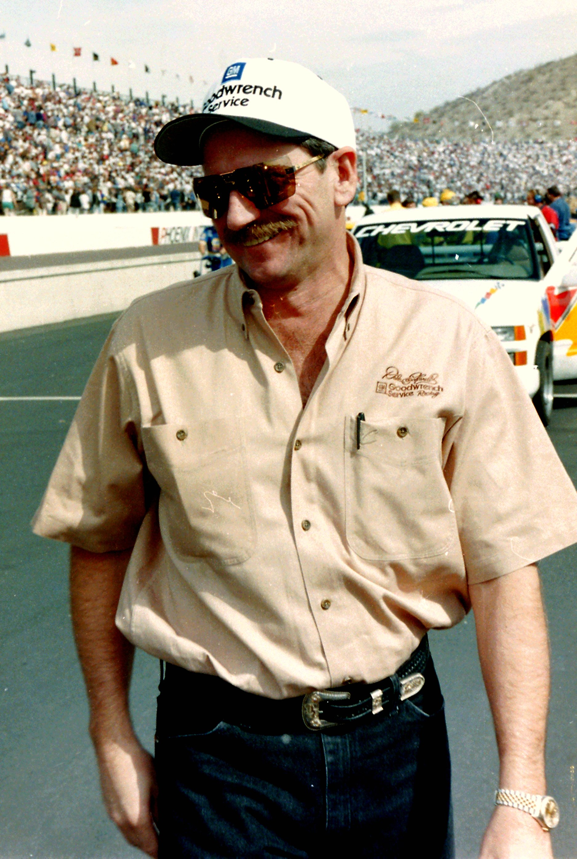 Dale Earnhardt outside his car before a NASCAR race